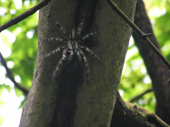 A giant tarantula-like spider that I saw in Karnala. My dear pals at the mumbainaturalists group have identified it as the Indian Ornamental Spider, Poecilotheria regalis (Family: Theraphosidae).